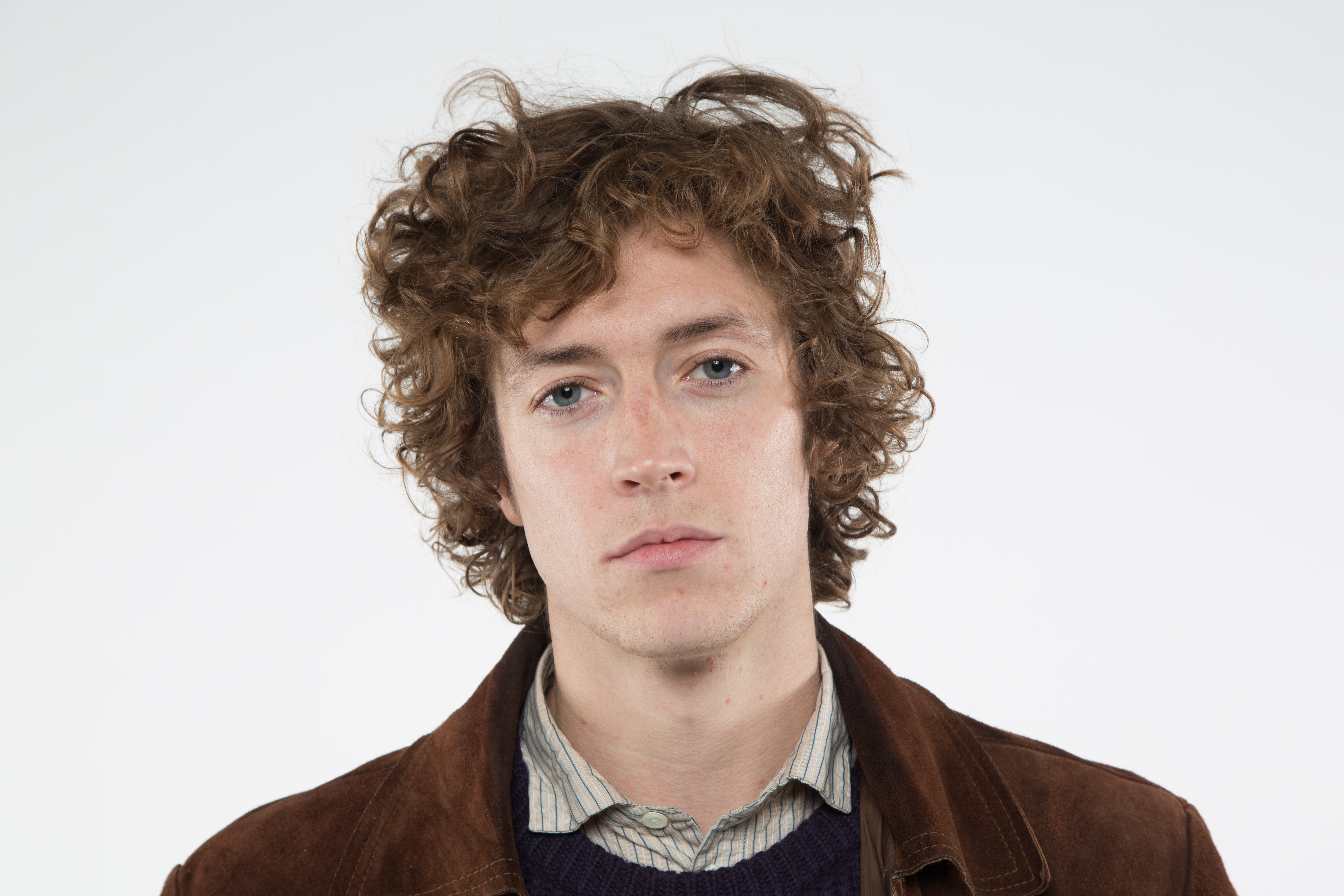 Huw Evans. A Welsh band.